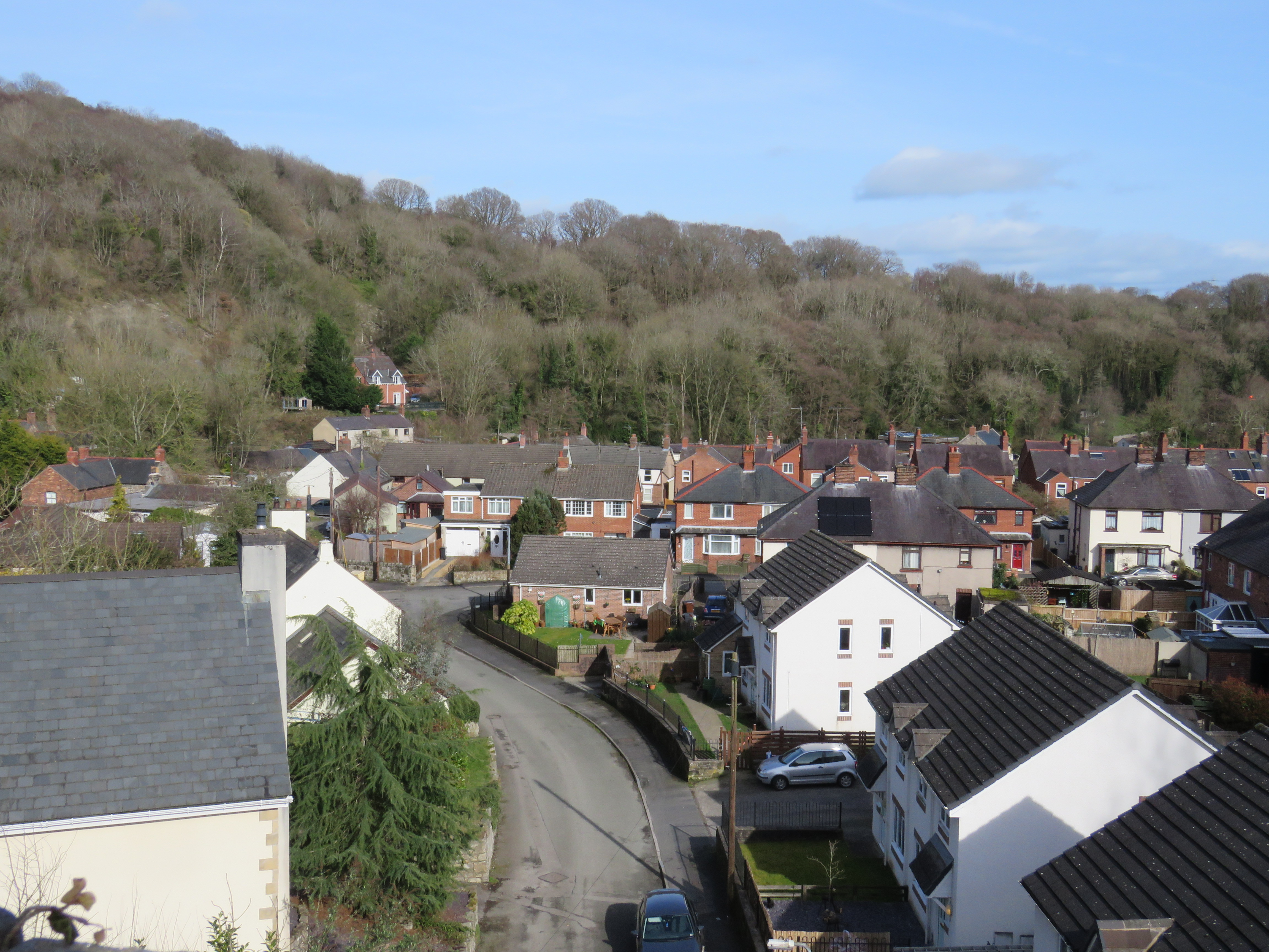 view of Ffrith, Flintshire, Wales from the disused railway viaduct